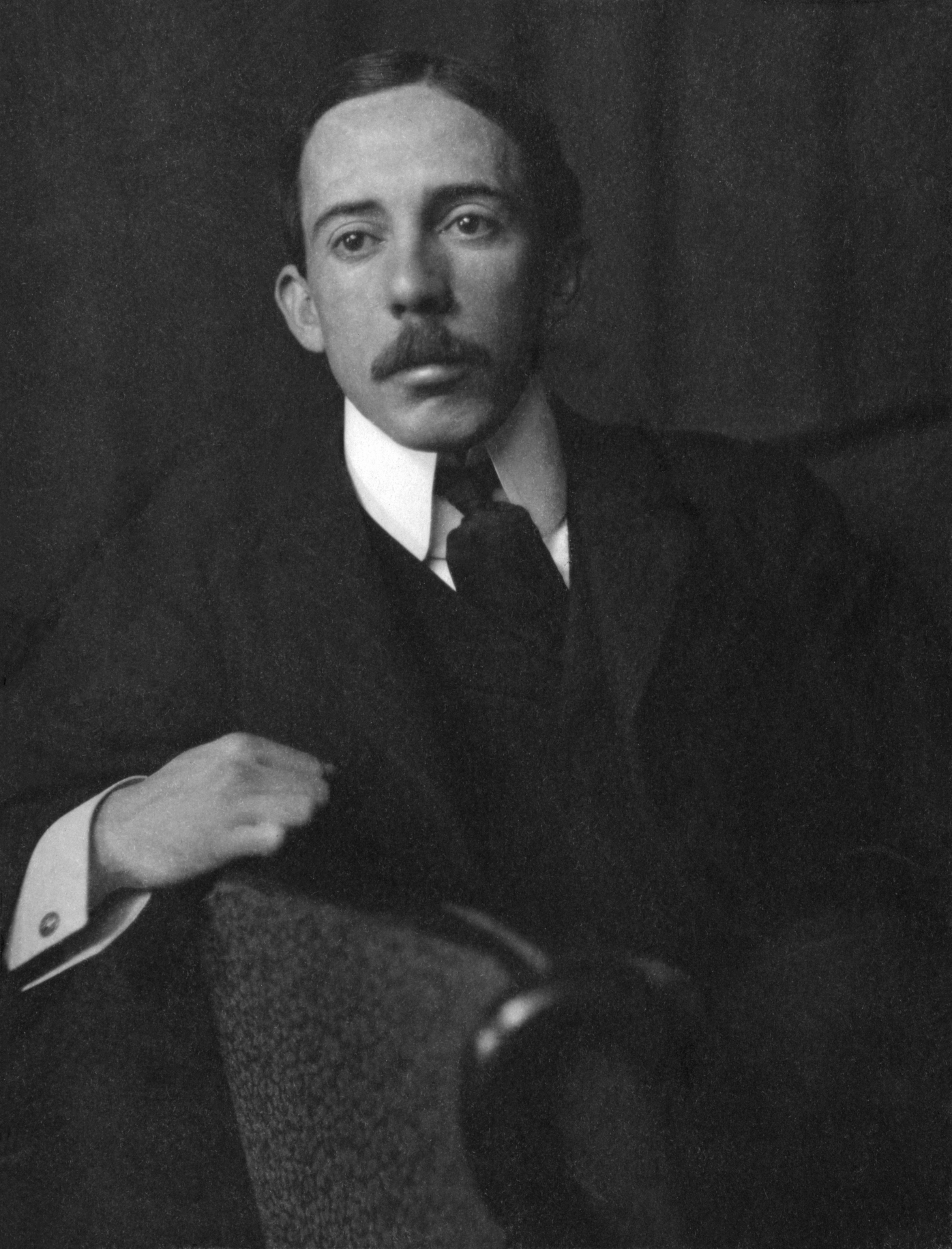 Alberto Santos-Dumont, half-length portrait, facing front, sitting, with right arm resting on back of chair